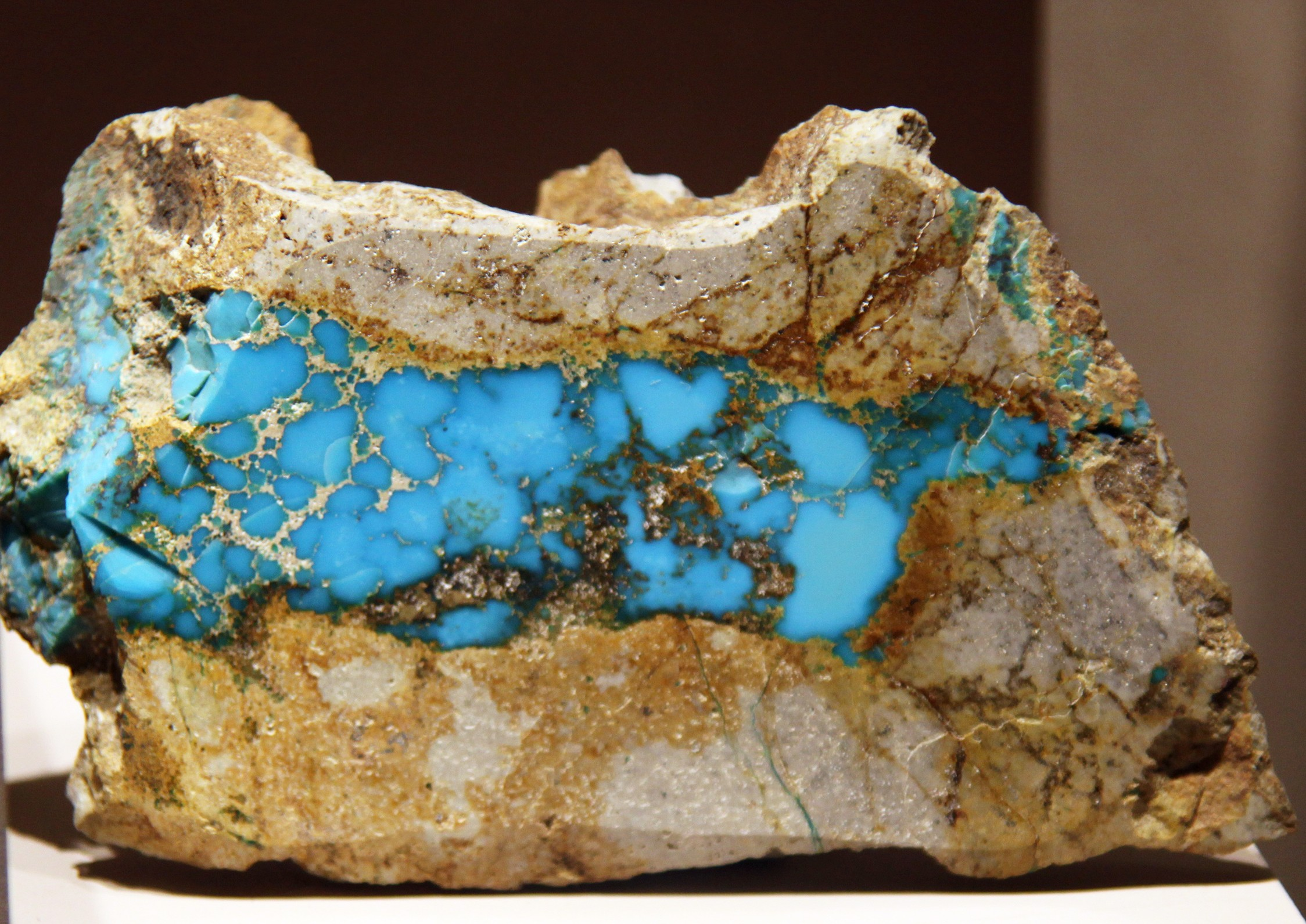 Turquoise from Cerillos, NM at the Smithsonian mineral collxn.